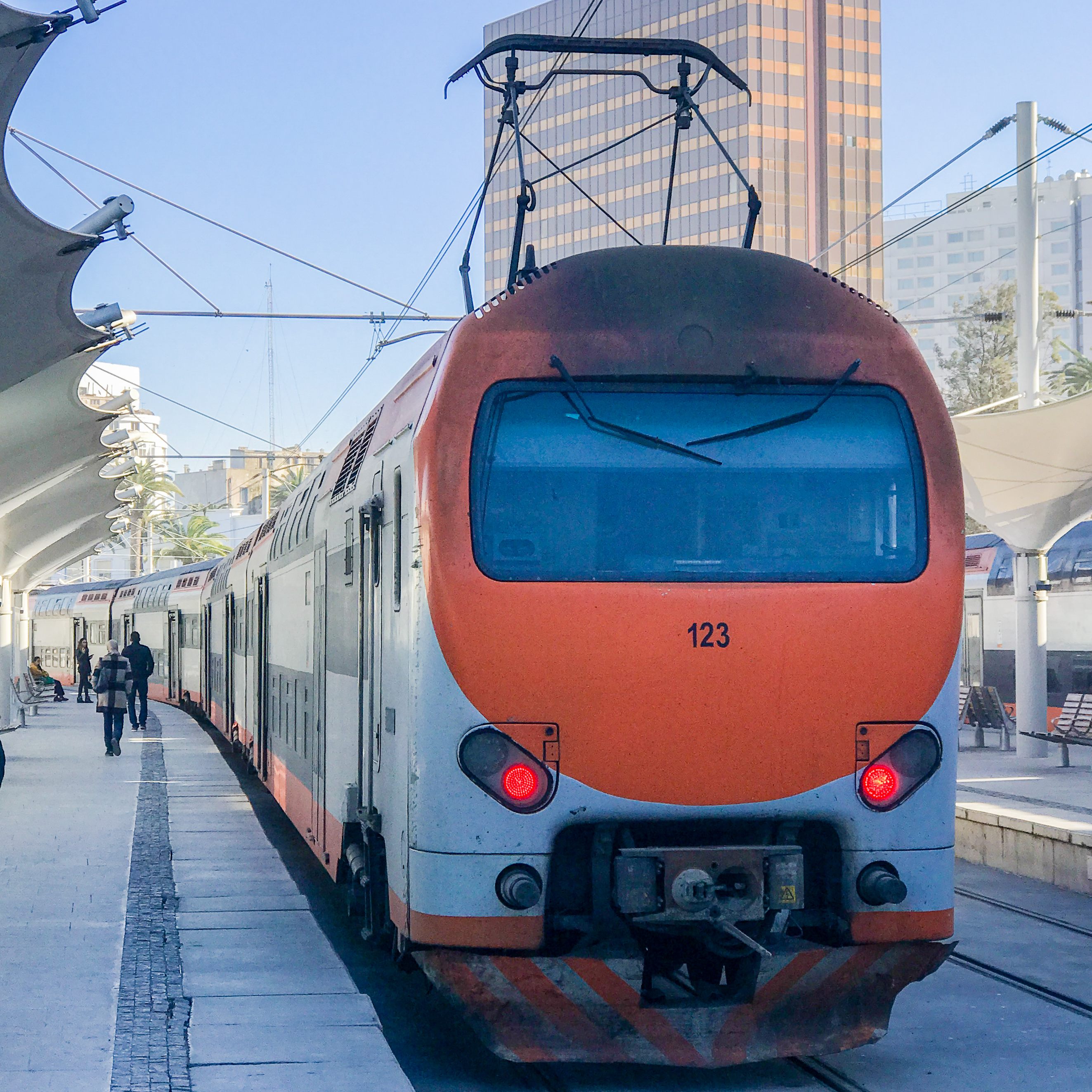 Moroccan National Rail (ONCF) EMU - Ansaldo Breda Z2M